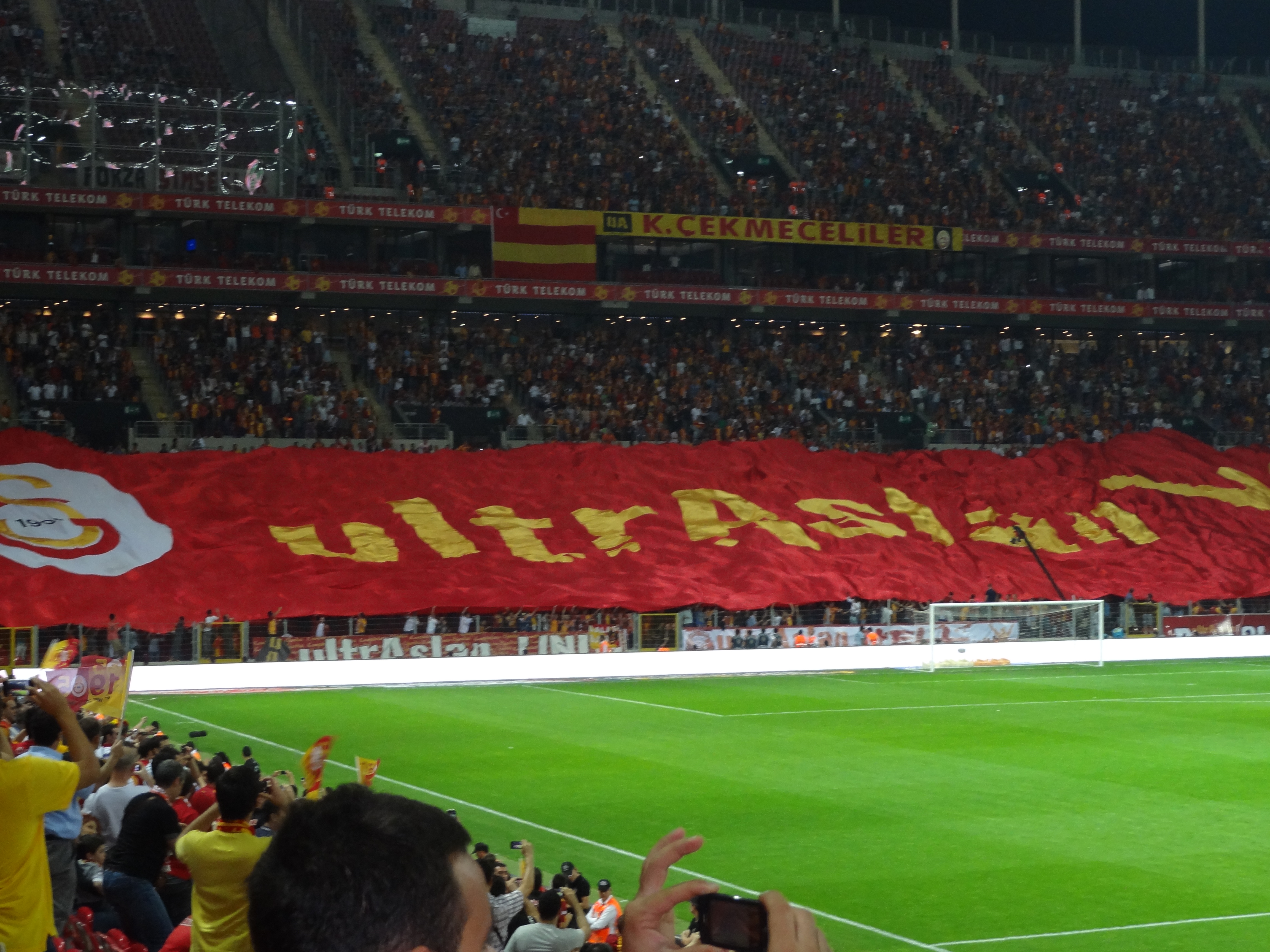 samsun maçı